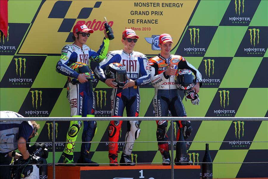 Valentino Rossi, Jorge Lorenzo and Andrea Dovizioso, celebrating on the podium after finishing second, first and third at the 2010 French Grand Prix.